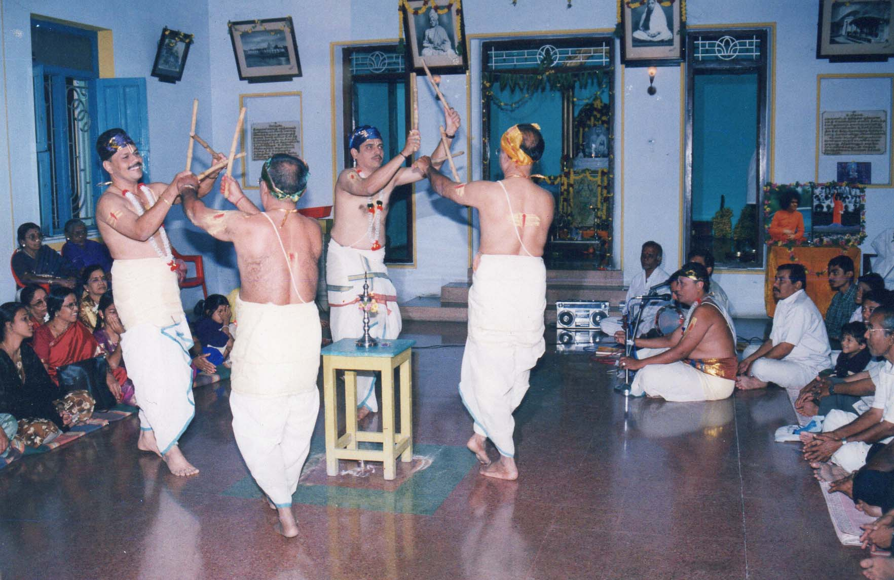 Traditional Stick Dance of Sourashtra People of Madurai, Tamilnadu, India